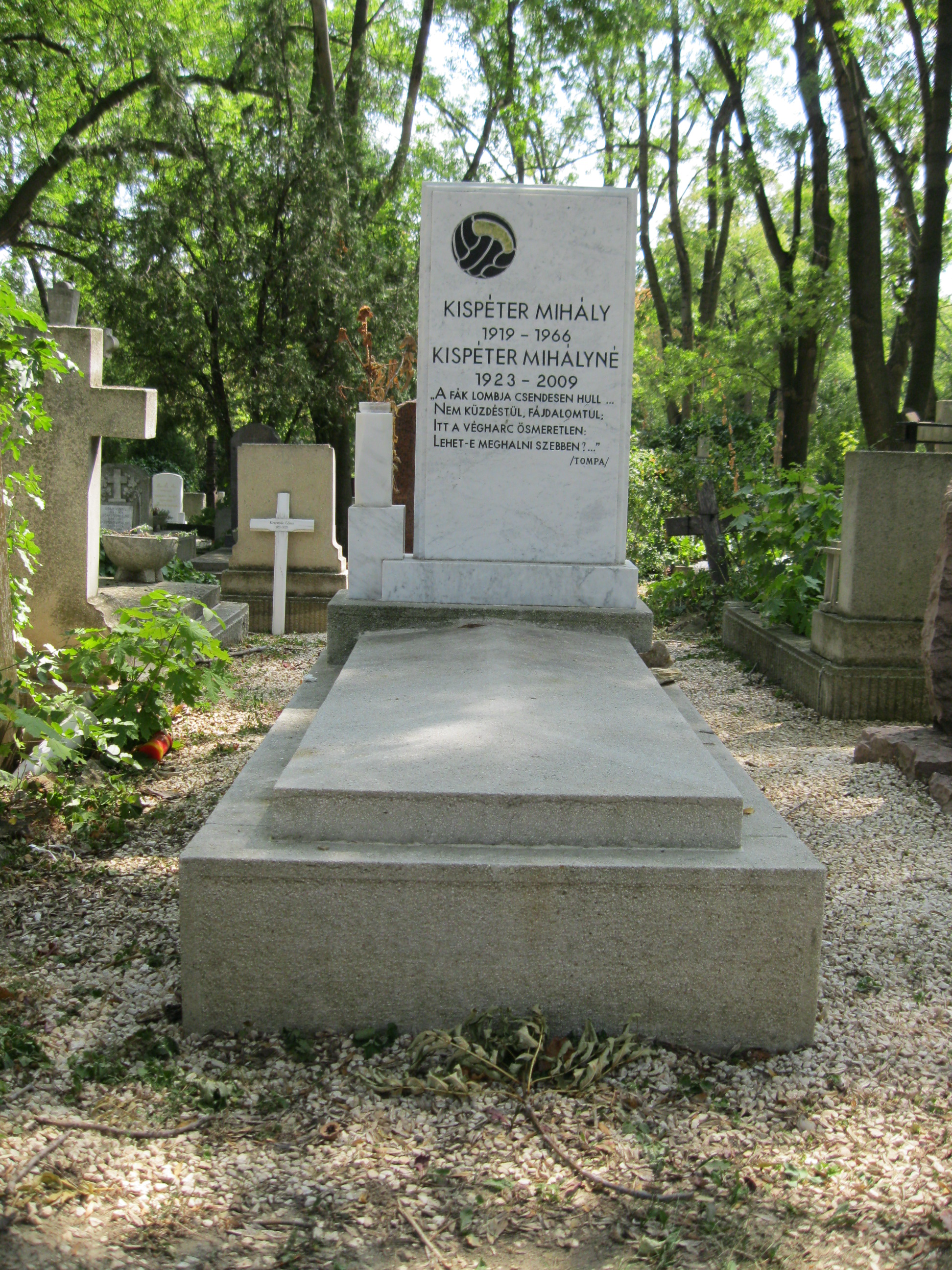 Tomb of Mihály Kispéter in Farkasréti Cemetery [7/5-1-45]